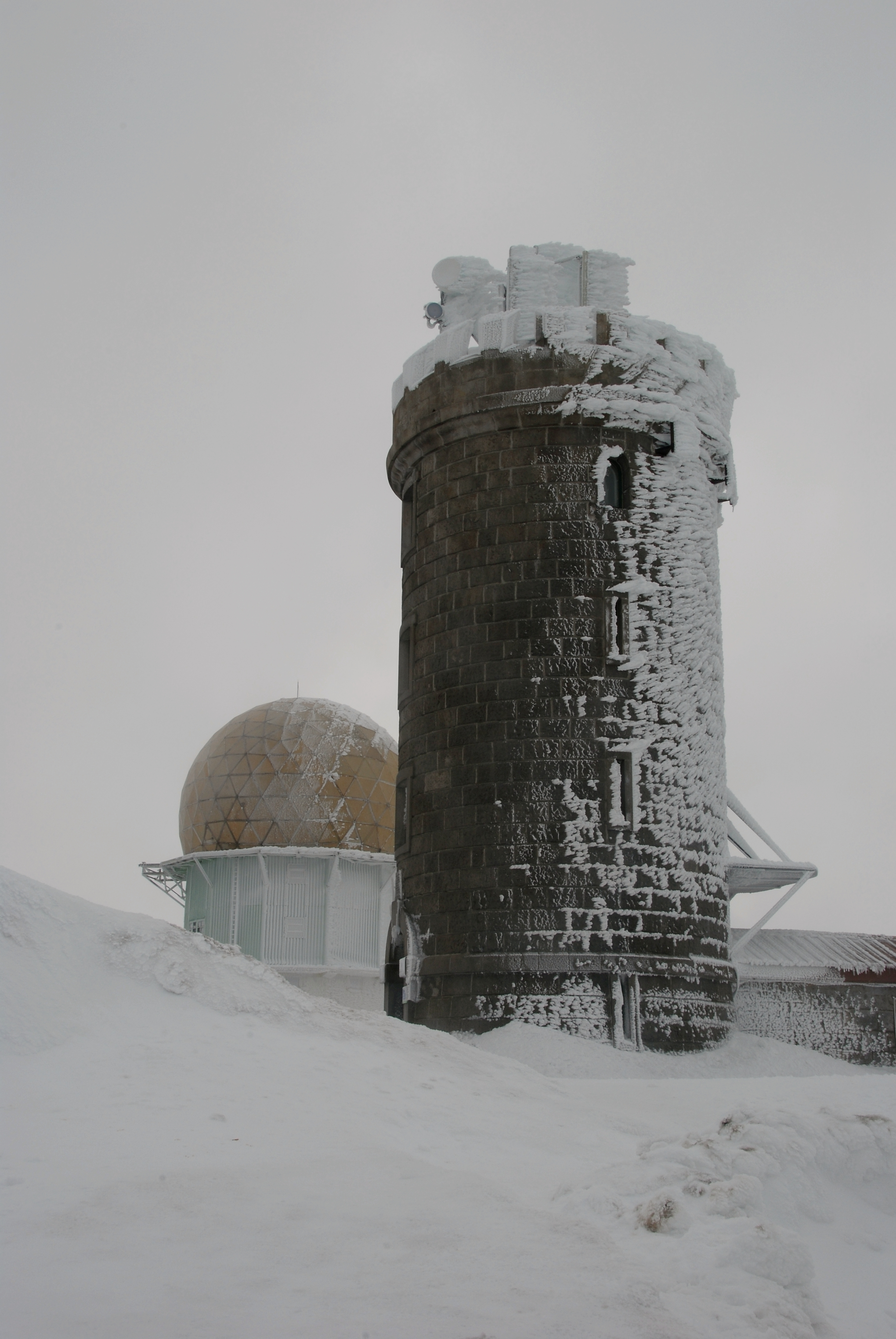 The highest point in continental Portugal: the Torre (tower) in Serra da Estrela ('Estrela Mountains')